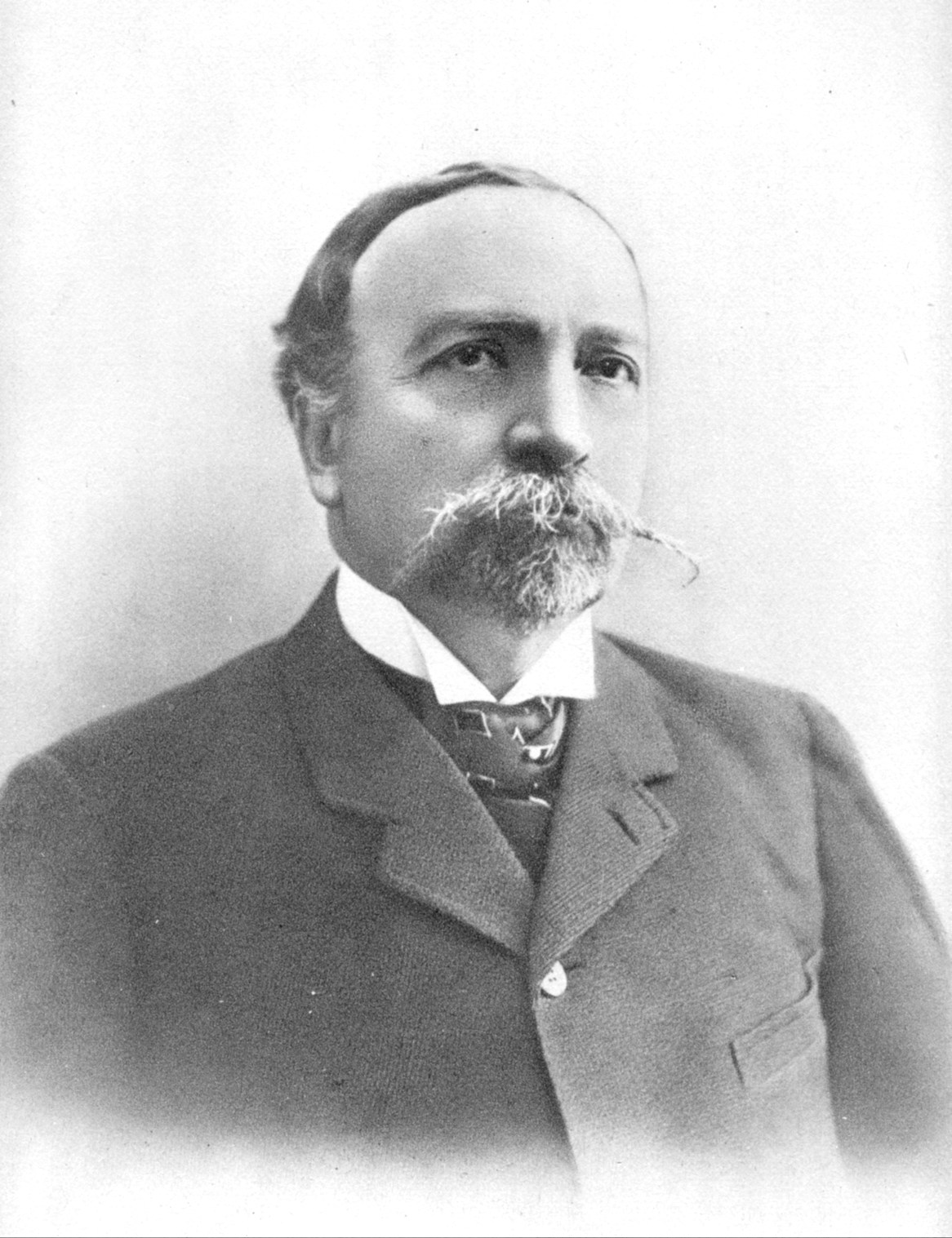 Edward Woynillowicz (1847–1928), leader of Minsk agricultural society